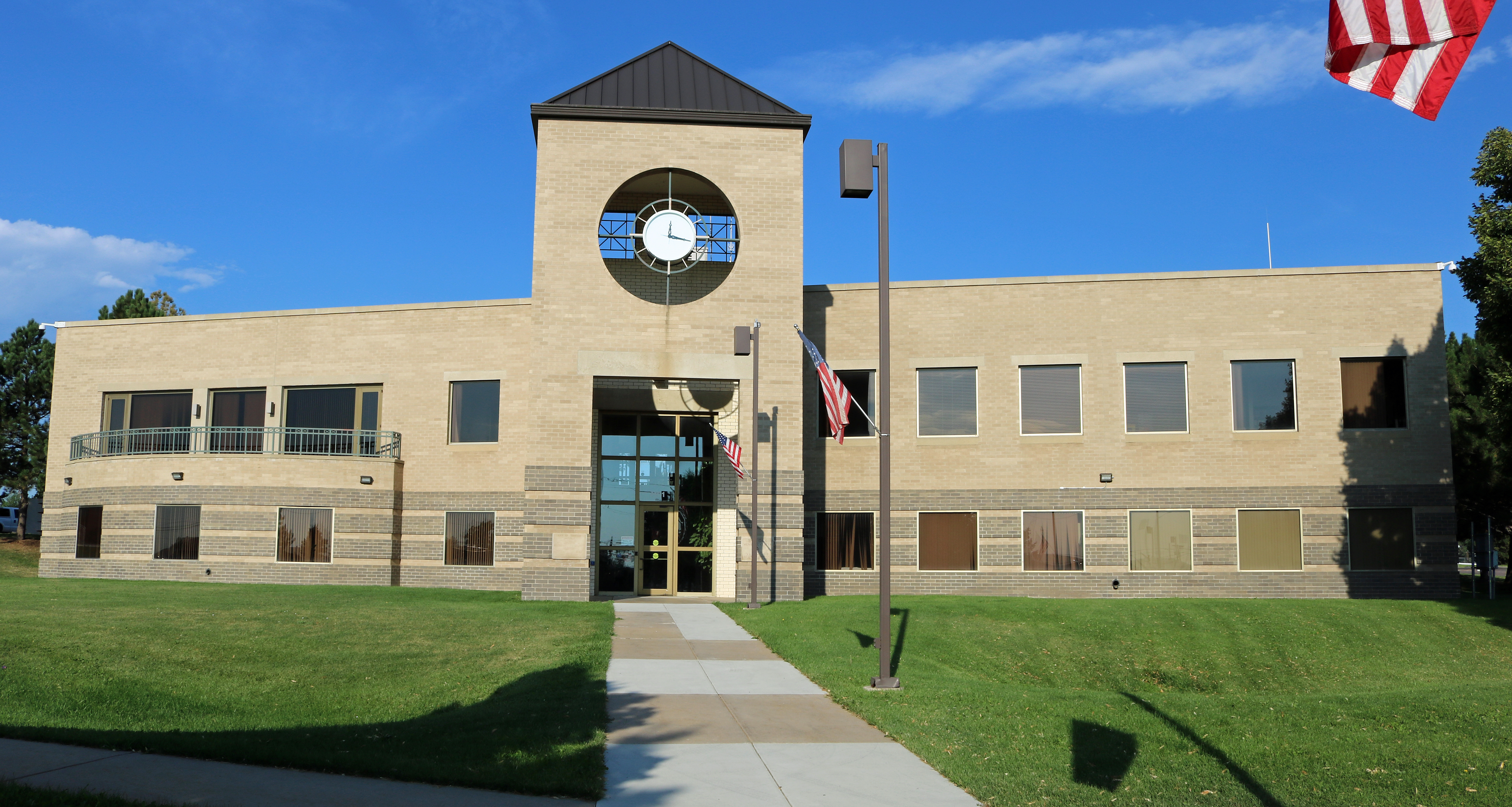 The Sheridan City Hall, located at 4101 South Federal Boulevard in Sheridan, Colorado.